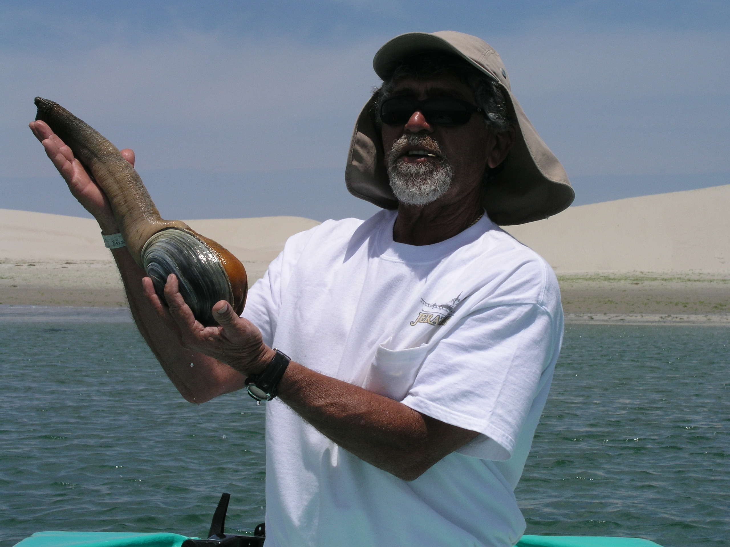 Panopea generosa (Geoduck )